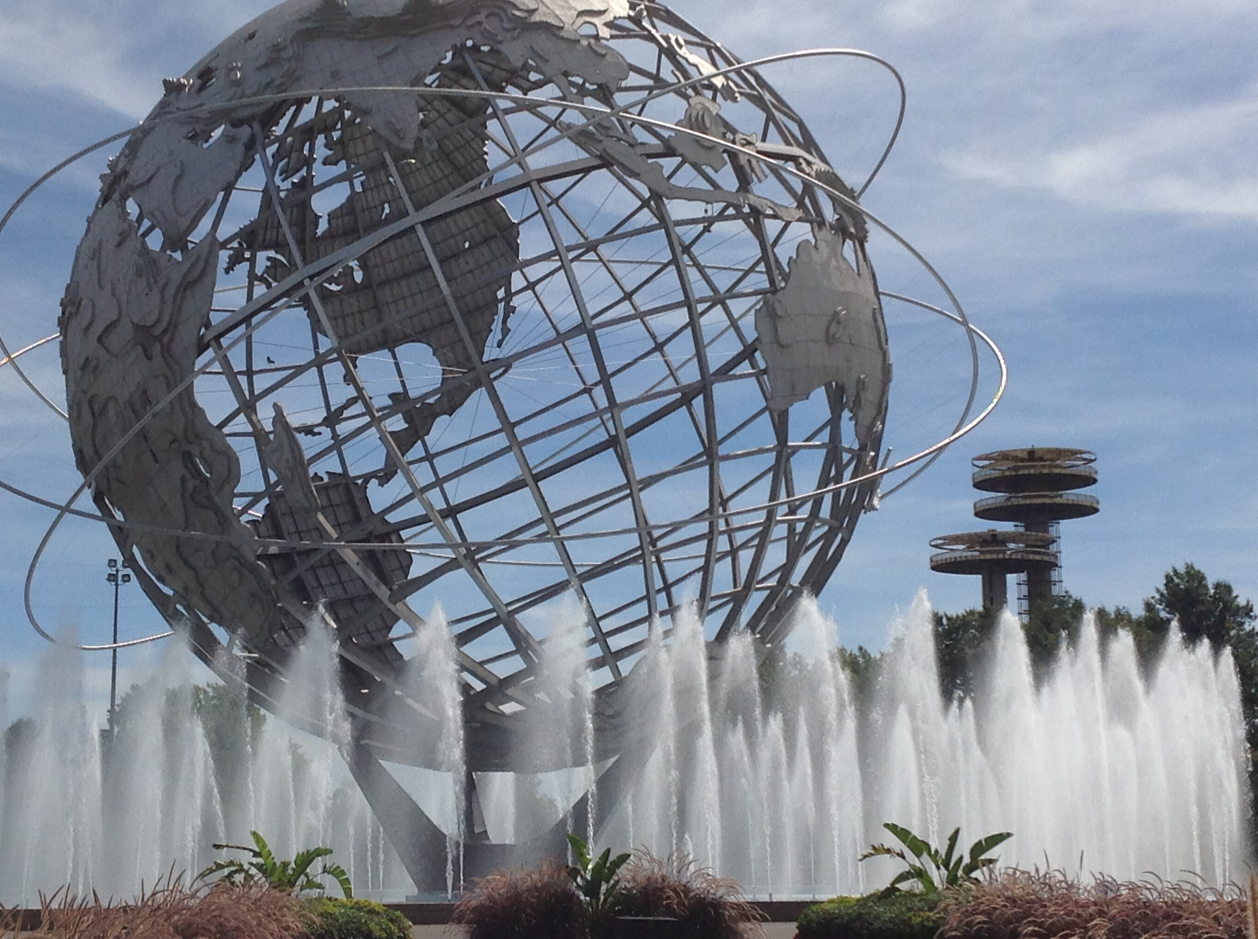 1964-1965 New York World